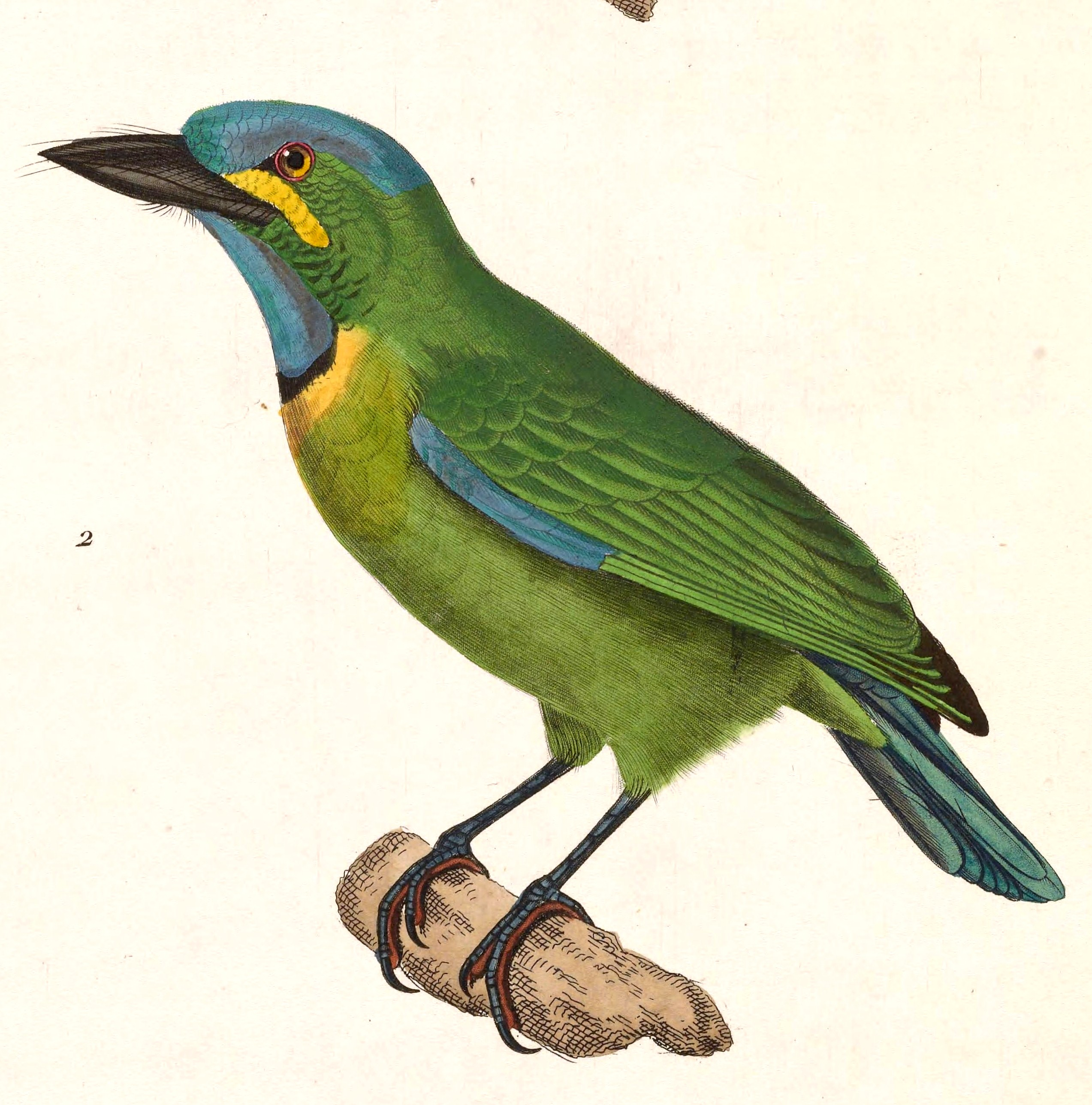 « Bucco gularis » = Megalaima australis australis (Subspecies of Blue-eared Barbet) - adult